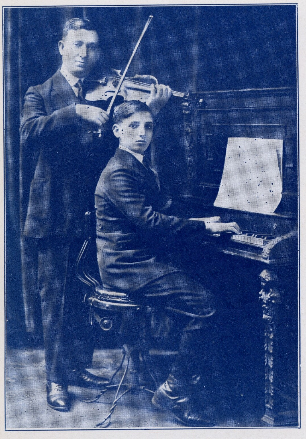 This portrait of the Jewish (klezmer) violinist Max Leibowitz and his son (unnamed in the source) was on the cover of a score for "Es iz shoin farfallen and Simches Torah chusid'l" from the Library of Congress Yiddish sheet music collection